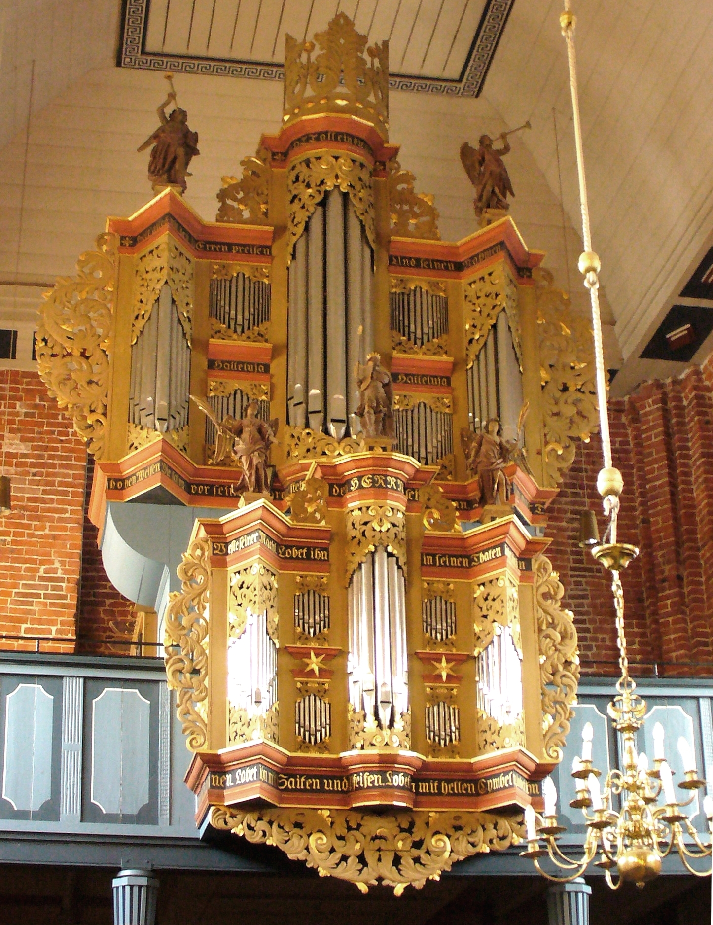 The pipe organ in the Evangelical Lutheran Church in Marienhafe (East Frisia), Lower Saxony, Germany.